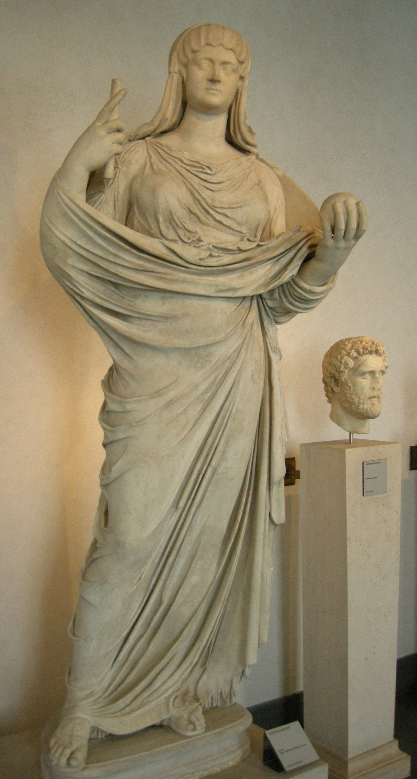 read filename pls